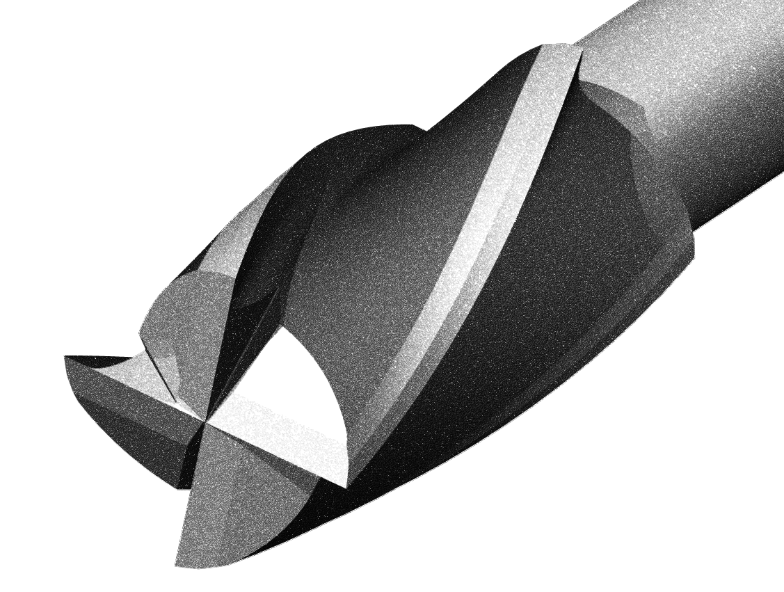 Milling and machining processes